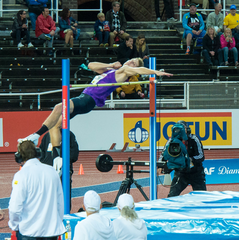 Derek Drouin at the Stockholm Olympic Stadium during the Bauhaus Gala (Stockholm Bauhaus Athletics), (2015 IAAF Diamond League) July 30, 2015.